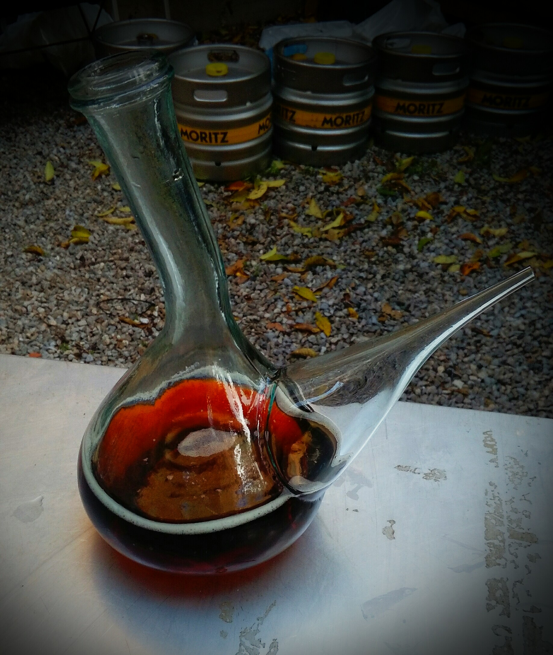 A porró filled with mau-mau.